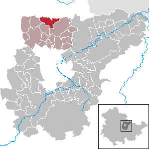 Krautheim in Thuringia - District Weimarer Land